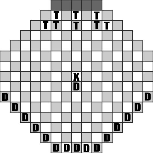 The board and initial positions for Thud: The Koom Valley. D for Dwarves, T for Trolls, X for Thudstone, dark gray - far side of the valley.